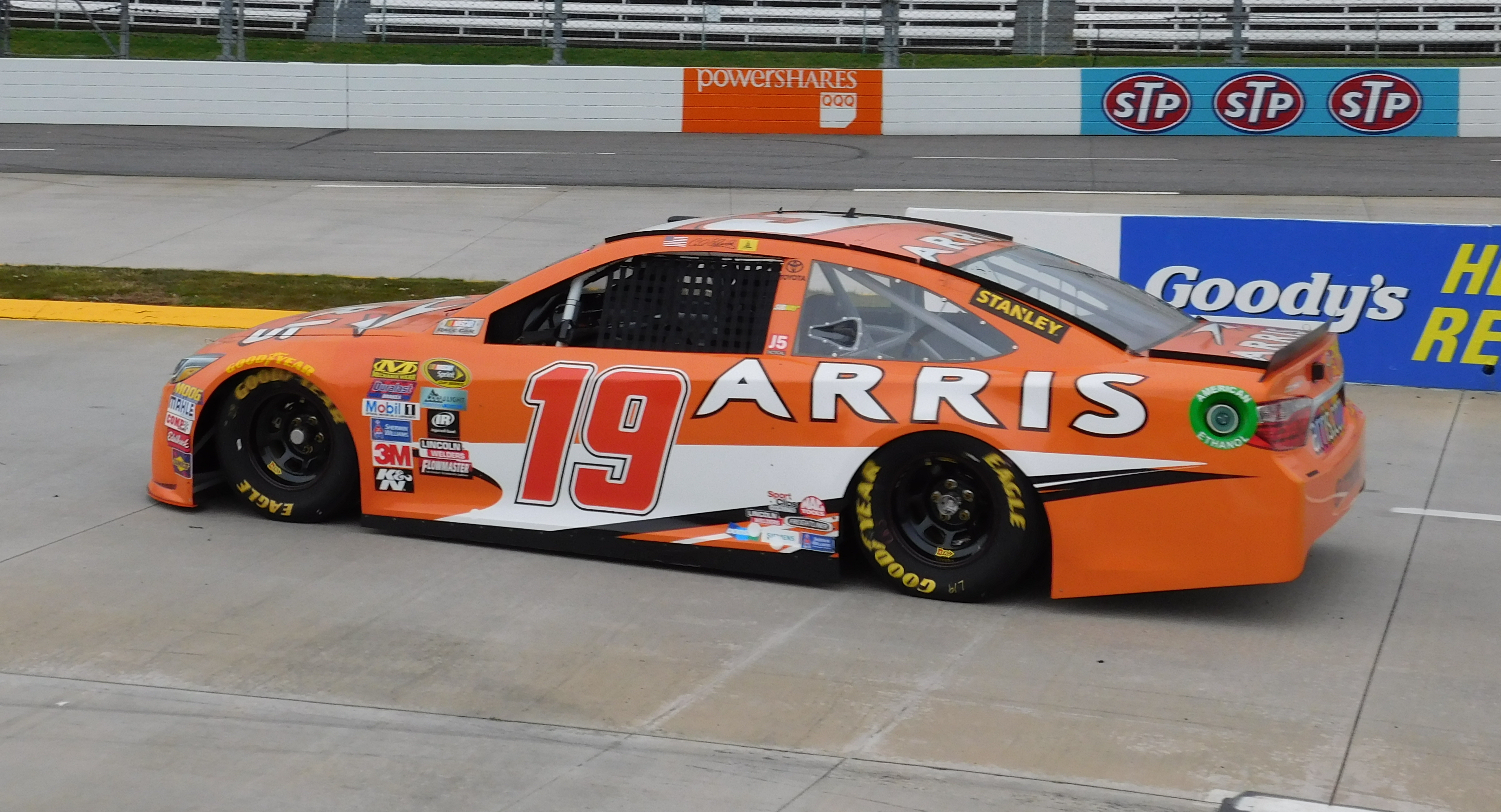 Carl Edwards' No. 19 Arris Toyota at Martinsville Speedway in 2016